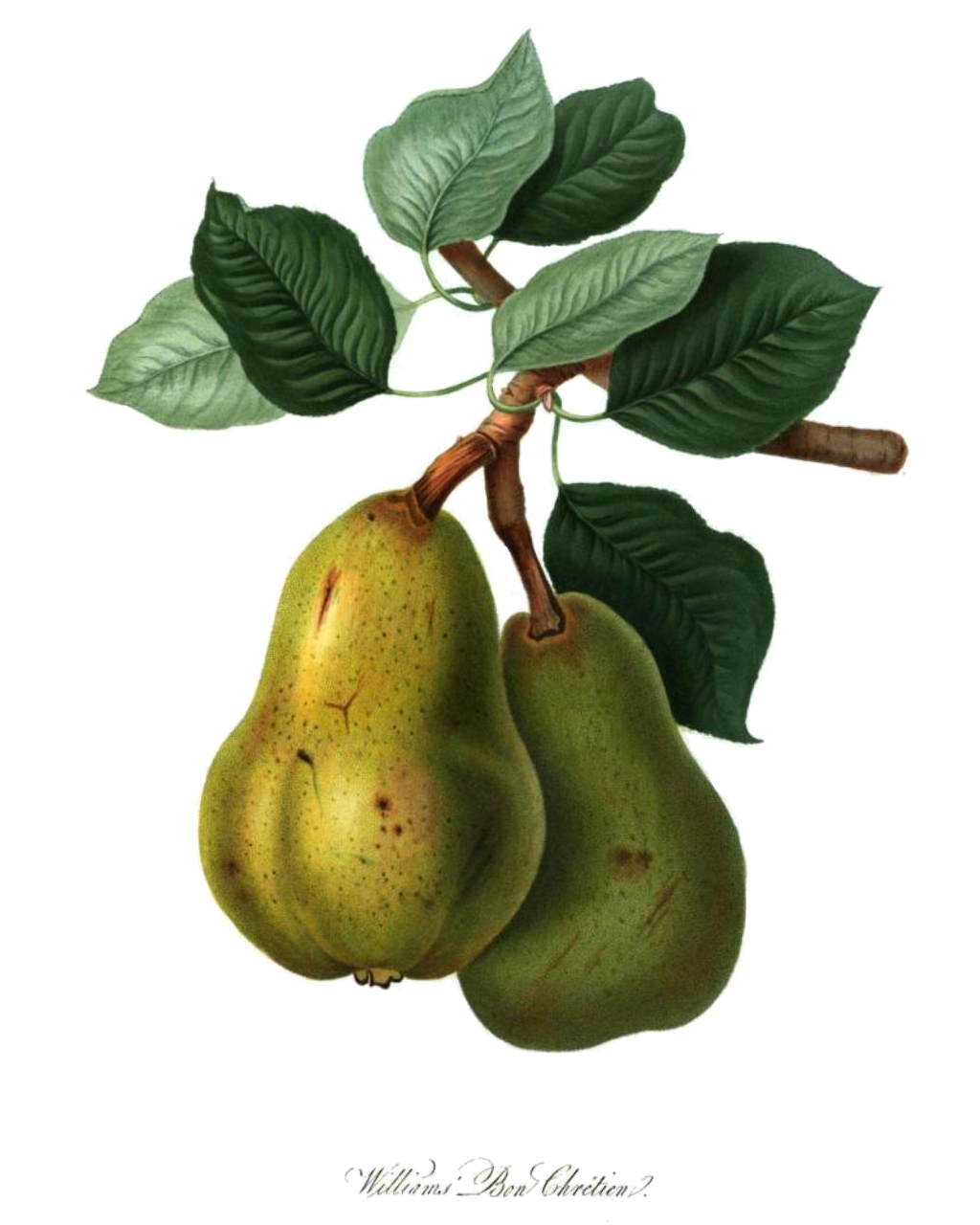 Williams' Bon Chrétien pear (commonly called the Williams pear, or Bartlett pear in U.S. and Canada, and (perhaps archaically) Stair's pear), taken from an 1822 3rd edition printing of a book that included an early (1816) description of the pear variety, which is thought to have originated around 1770. (Note that the book's description of the name Wheeler is disputed - the schoolmaster may have been named Stair.) Source: Horticultural Society of London. (1822.) "Transactions of the Horticultural Society of London, Volume II, 3rd Edition". Printed by W. Nicol: London, color plate following page 250. Retrieved on 2007-10-03. This is a minutely modified (cropped, cleared imperfections on background) capture of an image I created from a Google Book Search archive of an 1822 book published in London. The original image in the book is believed to be public domain because UK copyright law does not protect works of that age. Google's scan of the image is believed to be public domain because they explicitly allow unlimited use of their public domain works, with the request (not requirement) to maintain attribution. I also release my own trivial processing to the public domain. From Google Book Search Help Center: "How can I reuse public domain works? Your imagination is the limit. We hope that people of all ages read these books and find other creative uses for them. Each book in our index arrived there after a careful process of preservation by our library partners and our own specialists. We do ask that you maintain the attribution to Google to help those who seek the source of a book or want to find it in a library."